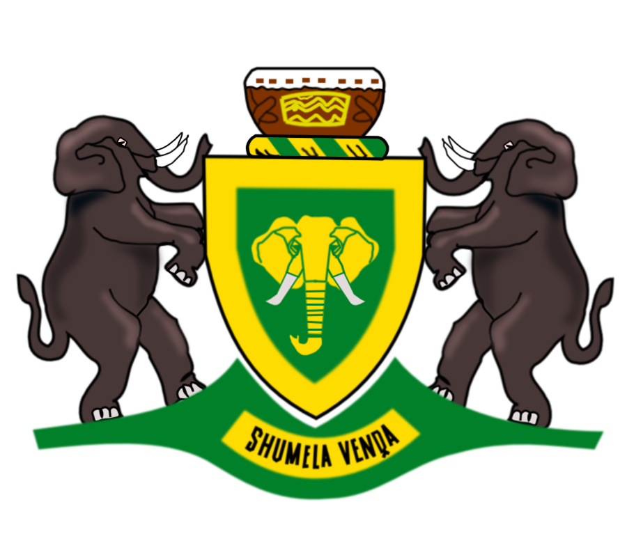 Coat of Arms of the Republic of Venda, Southern Africa, Bantustan, Homeland, 1979-1994